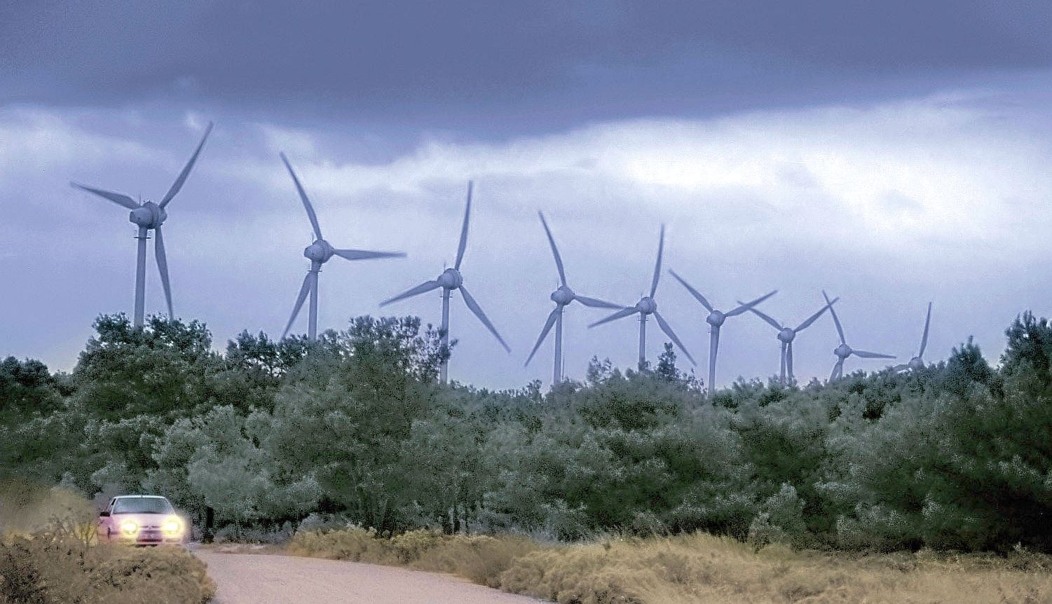 Bozcada Wind Turbines BORES, Ilford SFX 200